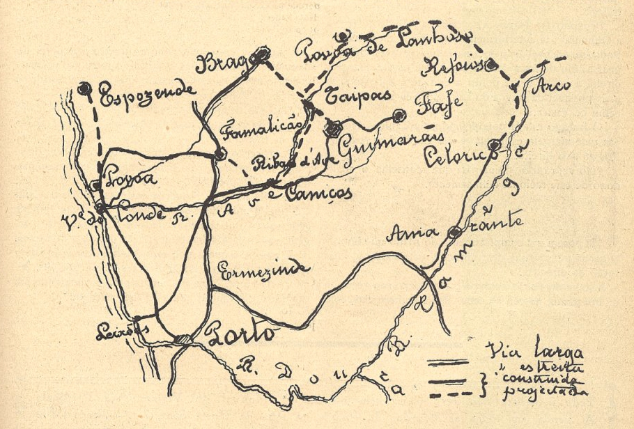 Map of the Ave Railway project, never built, between Caniços, on the Guimarães Railway, and Arco de Baúlhe, on the Tâmega Railway, in Portugal. In the map there is also the part from Póvoa de Varzim do Esposende in the canceled Litoral do Minho Railway, the continuation of the Tâmega Railway from Celorico de Basto until Cavez, of which only the part until Arco de Baúlhe was built, and the abandoned projects of the Famalicão Railway to Santo Tirso, and The Braga to Guimarães Railway. This image was published on the Gazeta dos Caminhos de Ferro magazine No. 1145, of the 1st September 1935, and scanned by the Hemeroteca Municipal de Lisboa.